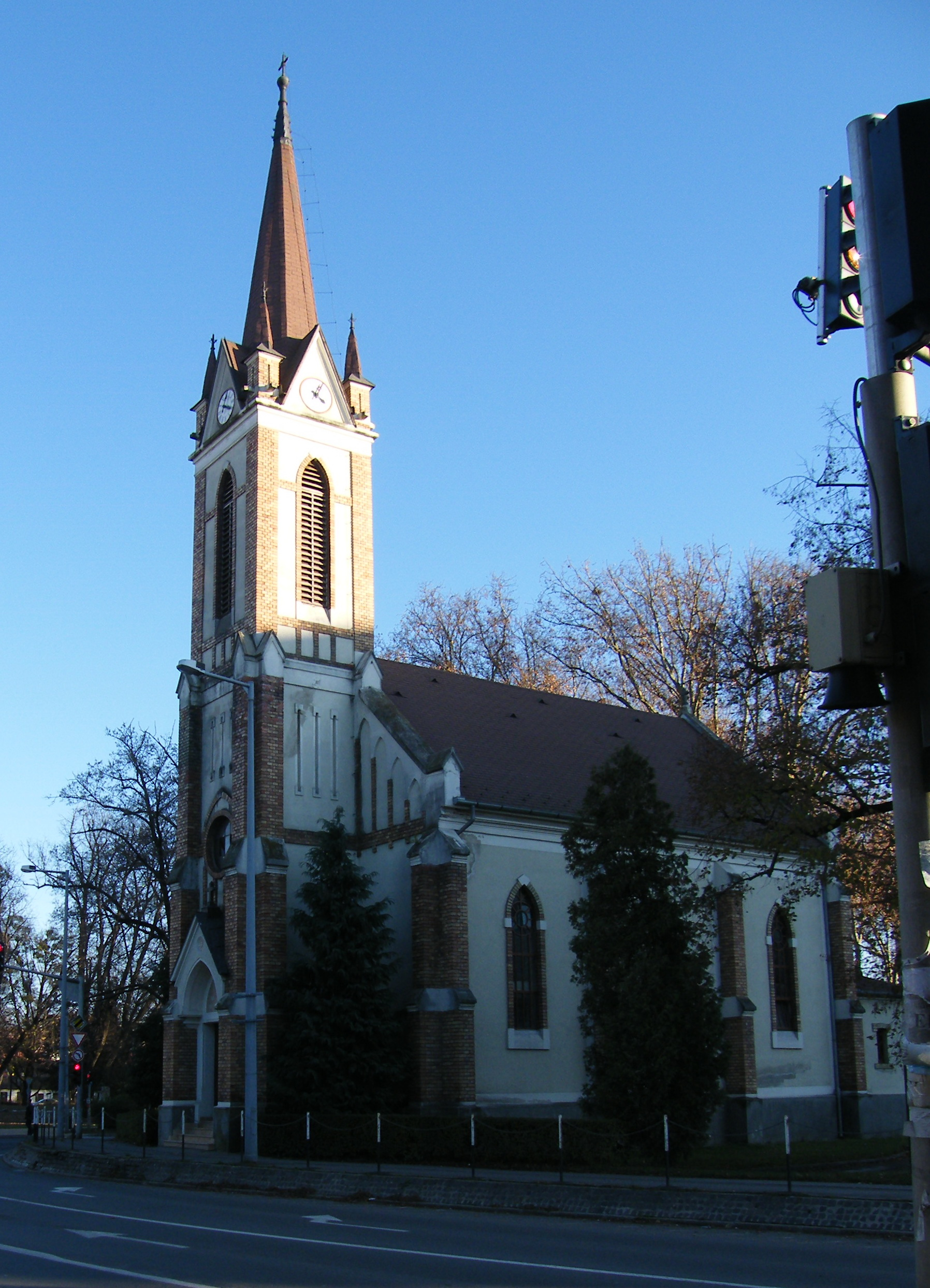 Evangelical church of Zalaegerszeg